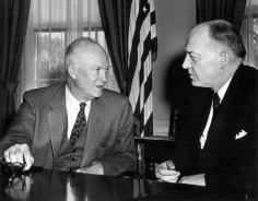 President Dwight D. Eisenhower meets with Harold Stasson, a special assistant who was largely responsible for drafting the "Open Skies" proposal, in the Oval Office on March 22, 1955.